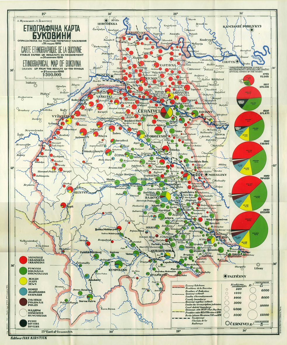 Ethnic map of Bukovina — according to 1910 census data